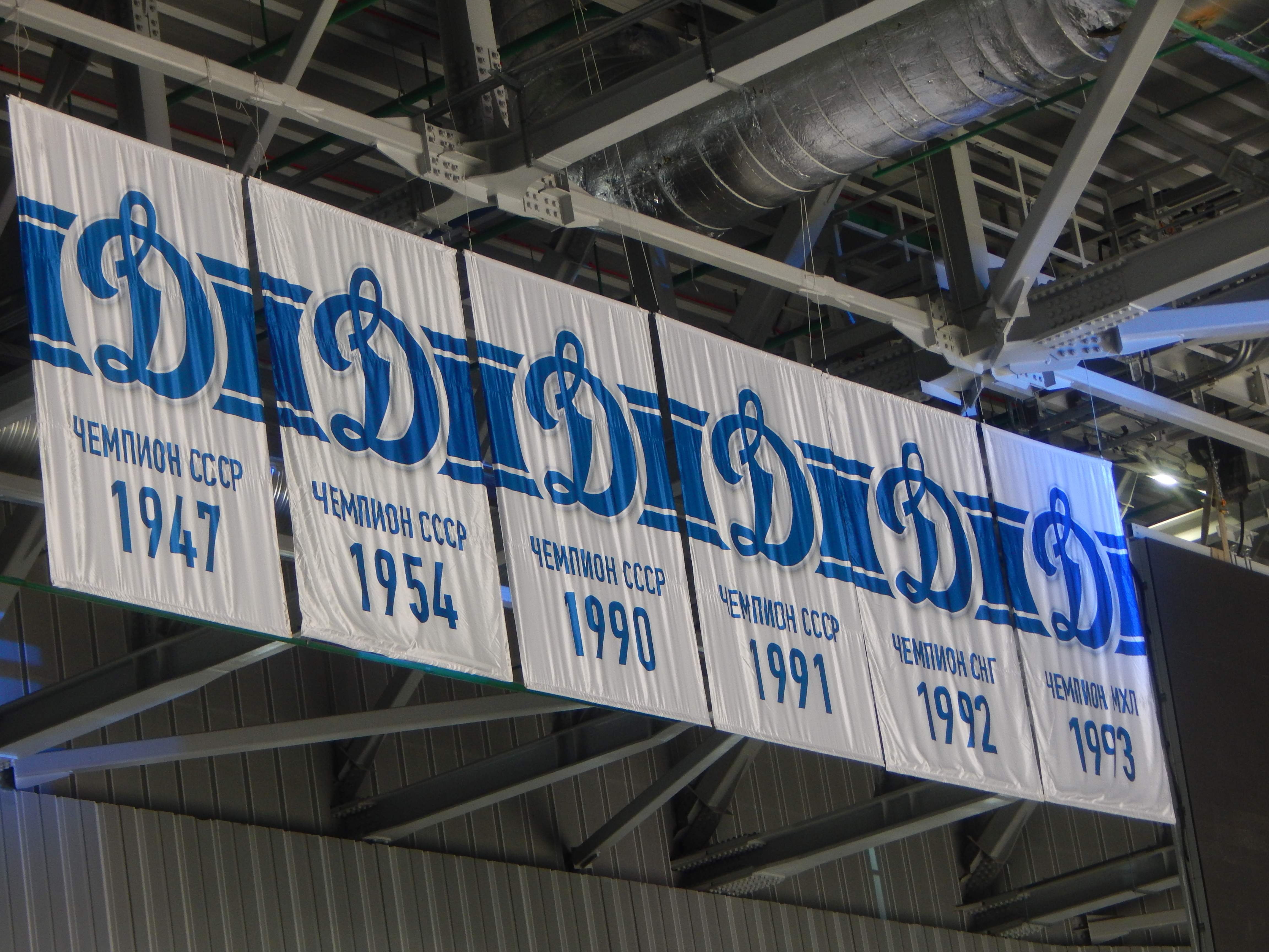 KHL regular match between Dynamo Moscow and Dinamo Riga. This game was held at Dinamo Stadium in Moscow on January 6, 2019.